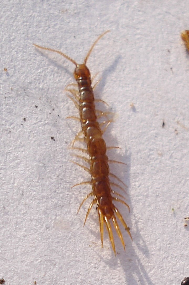 DSC09991 Chiplopoda: Lithobidae: Lithobius microps